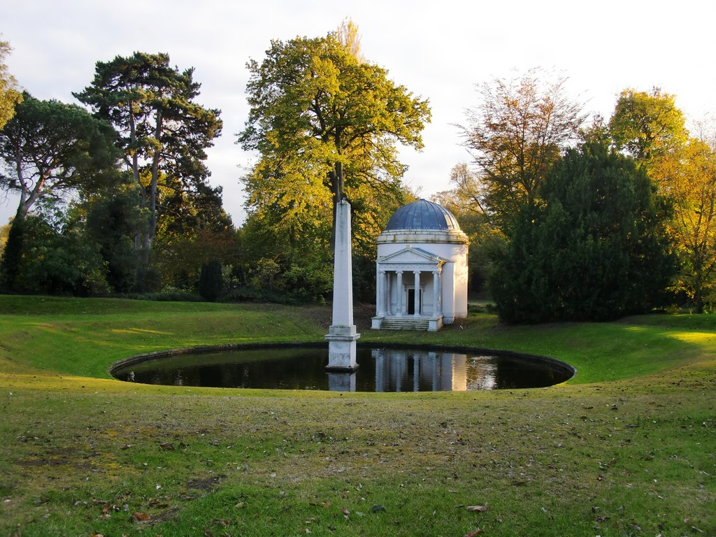 The Ionic Temple, Obelisk and Mirror Pond, Chiswick House Chiswick House as we know it was the brainchild of the 3rd Lord Burlington (1694-1753), and though both house and gardens have had to survive periods of neglect, the overall scheme - following restoration work in the last half-century - remains essentially his. According to Colen Campbell's 'Vitruvius Britannicus' (published in the 1720s) the little building shown here - which Campbell called 'bagno' (Italian for bath-house) - was Lord Burlington's first architectural project, dating from 1717. In the years which followed, Burlington - assisted by William Kent - went on to produce the design for the house itself. (Source: the Middlesex volume of Pevsner's 'The Buildings of England'.)